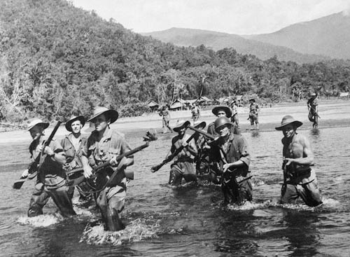 Australian War Memorial image 015323. Australian and United States troops land at Nassau Bay in New Guinea.